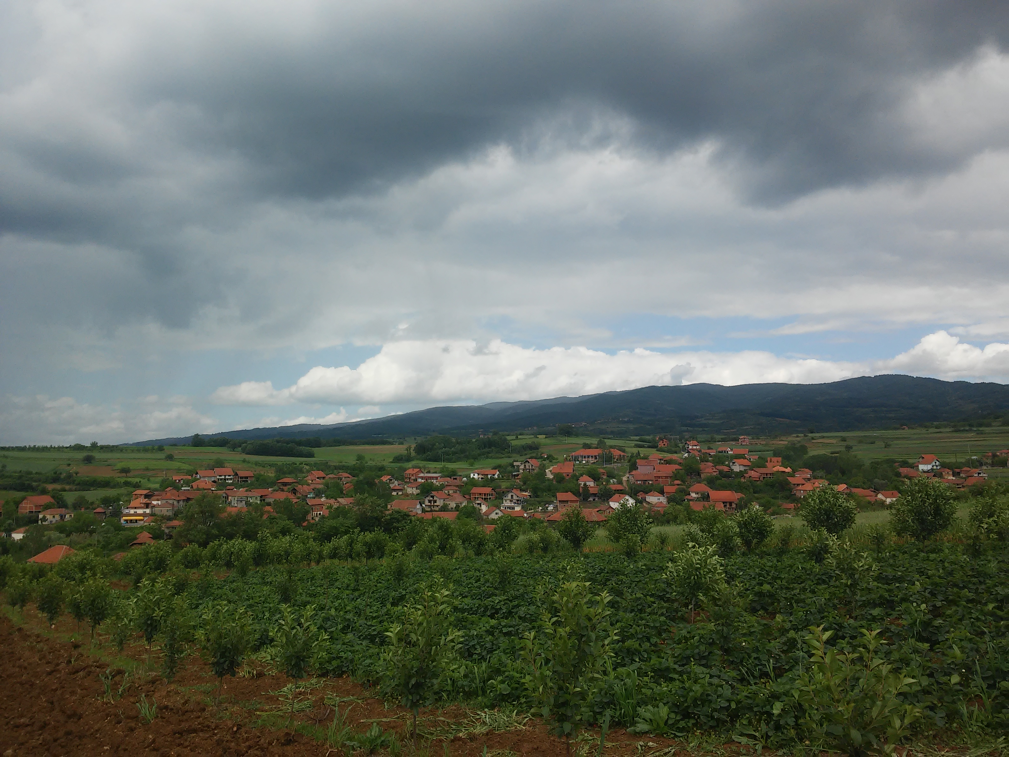 Selo Orašac, Leskovac